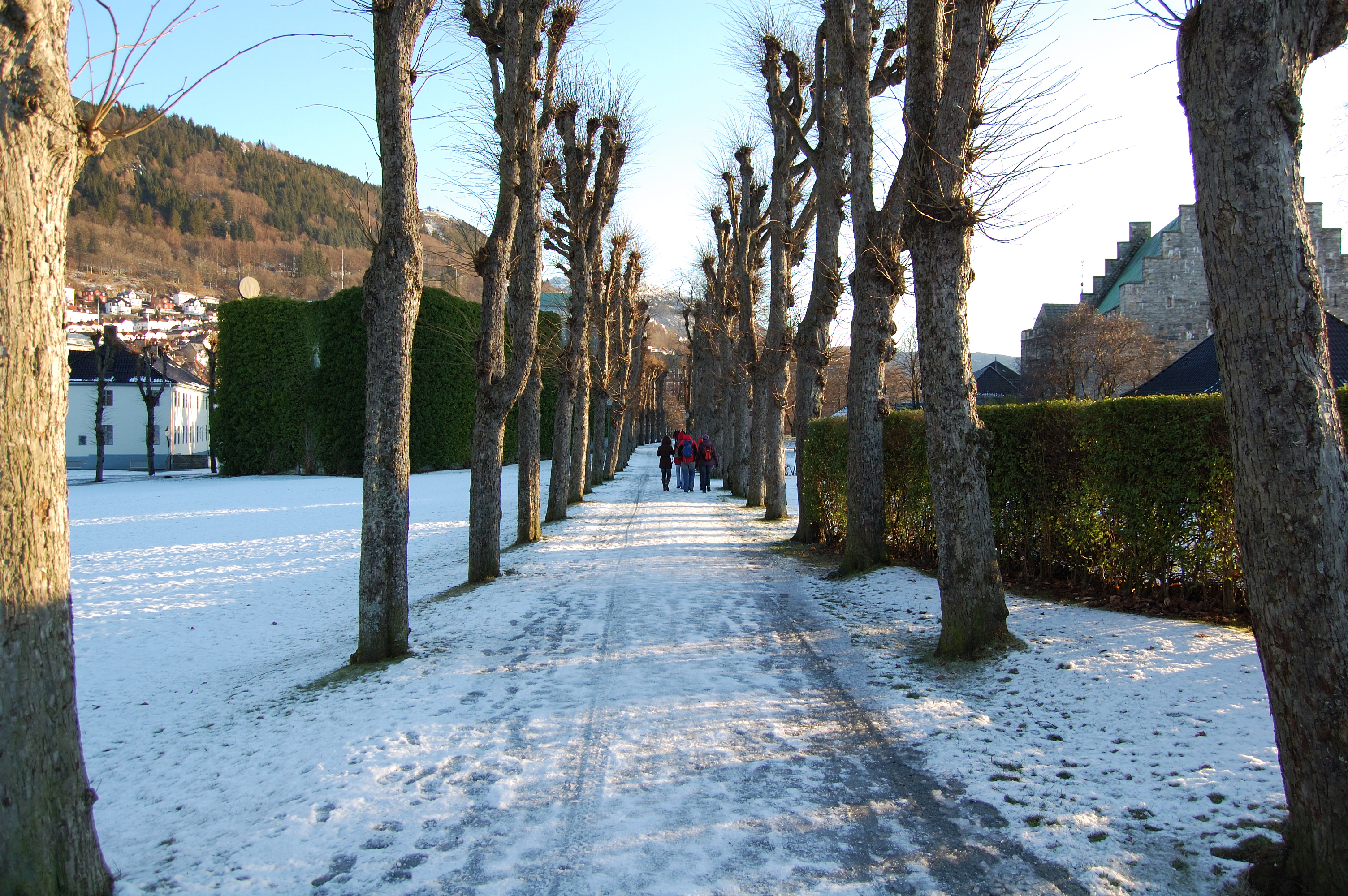 An alley in the Bergenhus Fortress in Bergen, Norway.